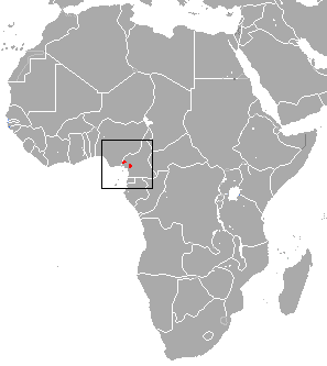 Preuss's Red Colobus (Procolobus preussi) range